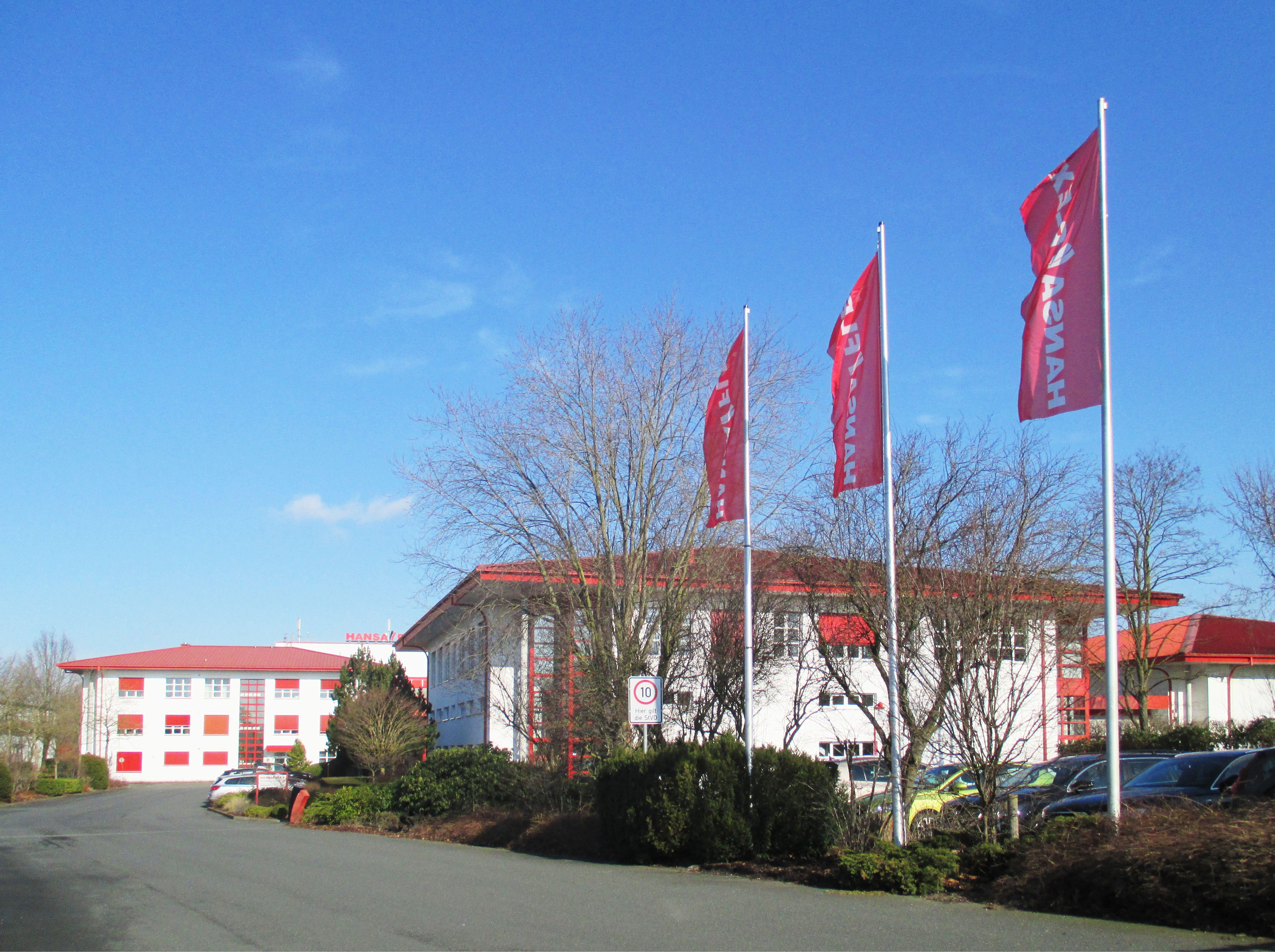 Headquarter of HANSA-FLEX AG in Bremen, Germany